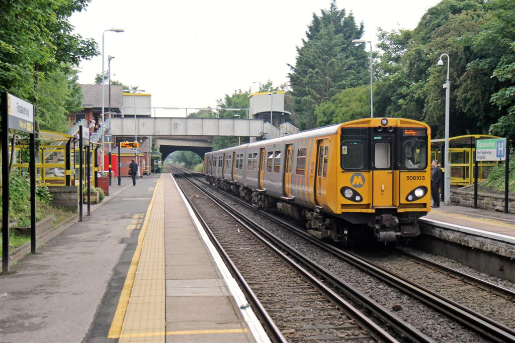 To Kirkby, Fazakerley Railway Station